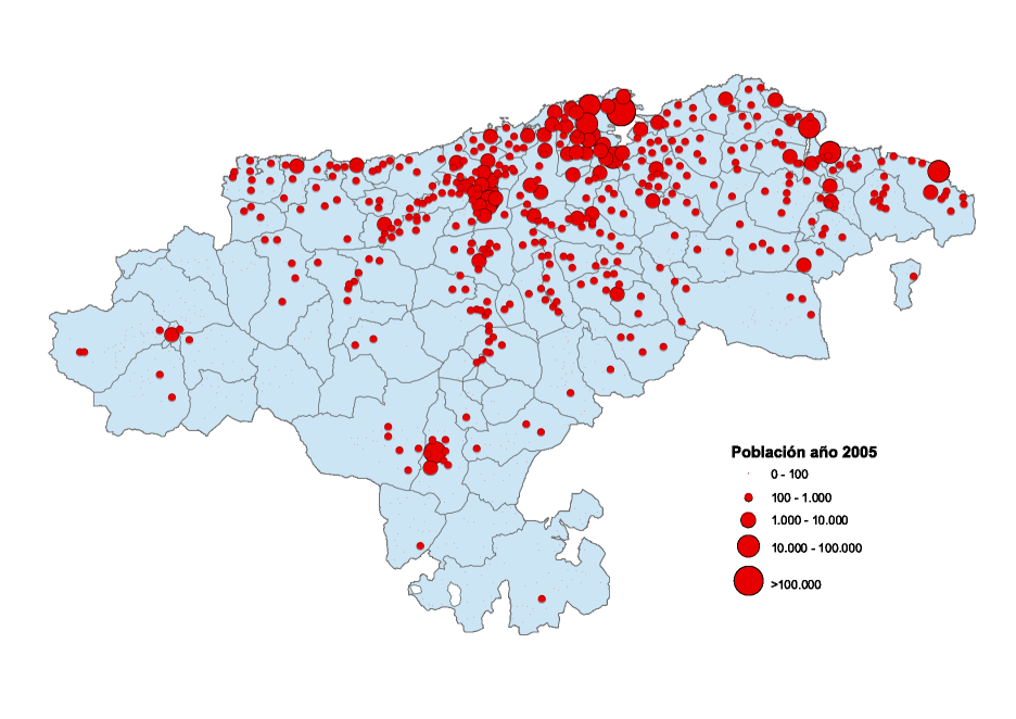 Map of habitants by villages in Cantabria. Year 2005